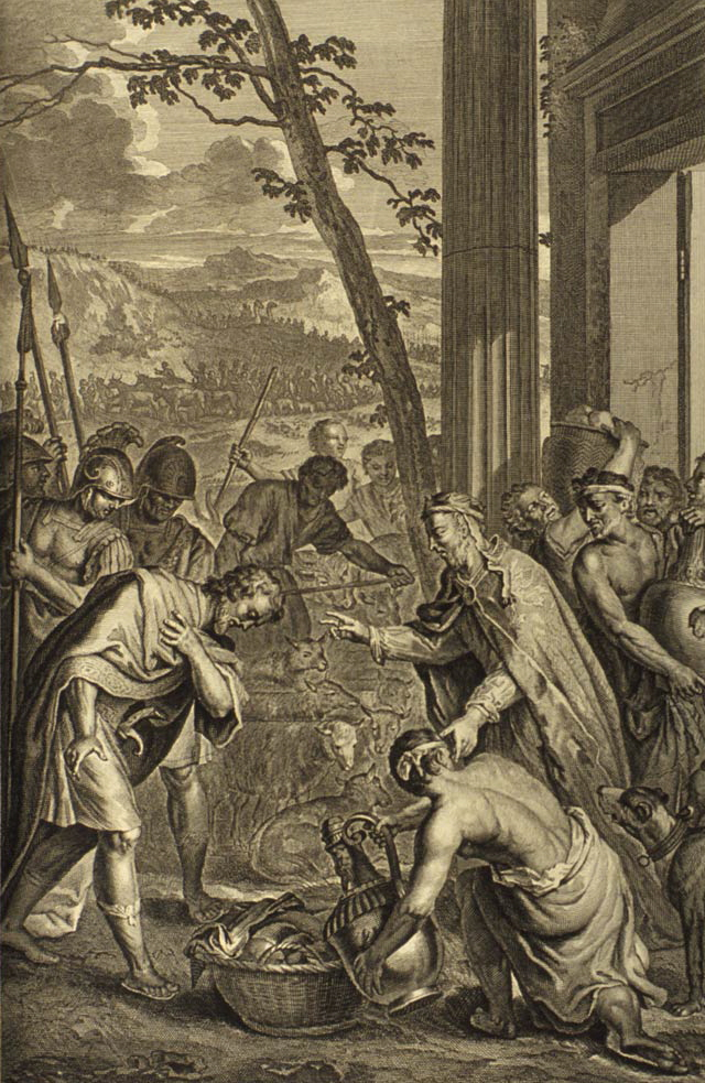 Melchisedec King of Salem blesses Abram; as in Genesis 14:18-20: "And Melchizedek king of Salem brought forth bread and wine: and he was the priest of the most high God. And he blessed him, and said, Blessed be Abram of the most high God, possessor of heaven and earth: And blessed be the most high God, which hath delivered thine enemies into thy hand. And he gave him tithes of all."; illustration from the 1728 Figures de la Bible; illustrated by Gerard Hoet (1648–1733) and others, and published by P. de Hondt in The Hague; image courtesy Bizzell Bible Collection, University of Oklahoma Libraries